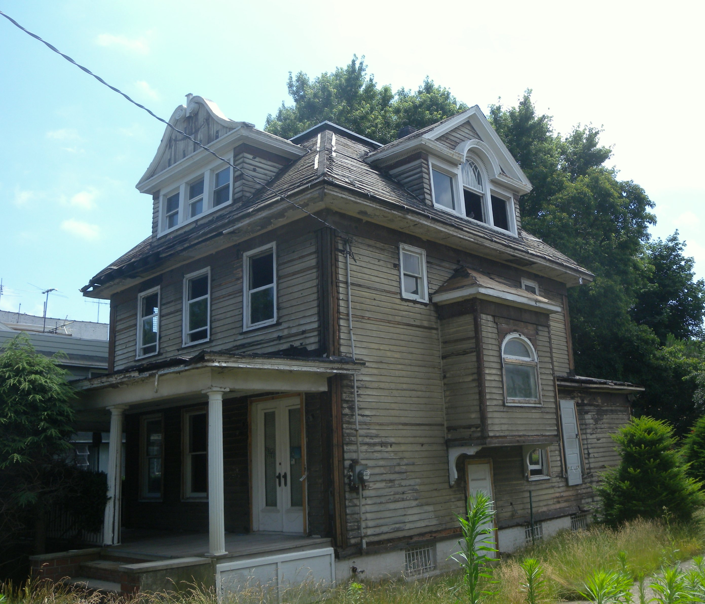 Looking southwest from East 15th Street on a partly cloudy afternoon, at empty house demolished a year later. Photographer's error placed it on 14th Street